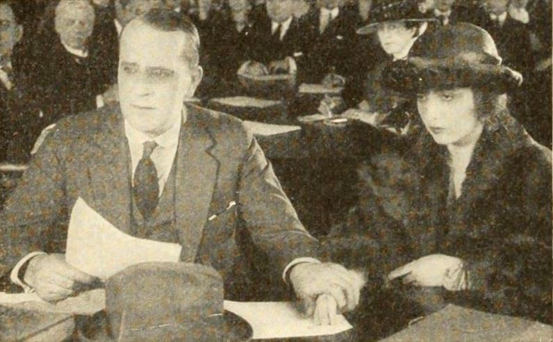 Still from the American film The Scarab Ring (1921) with an unidentified actor and Alice Joyce, on page 58 of the August 1921 Photoplay.